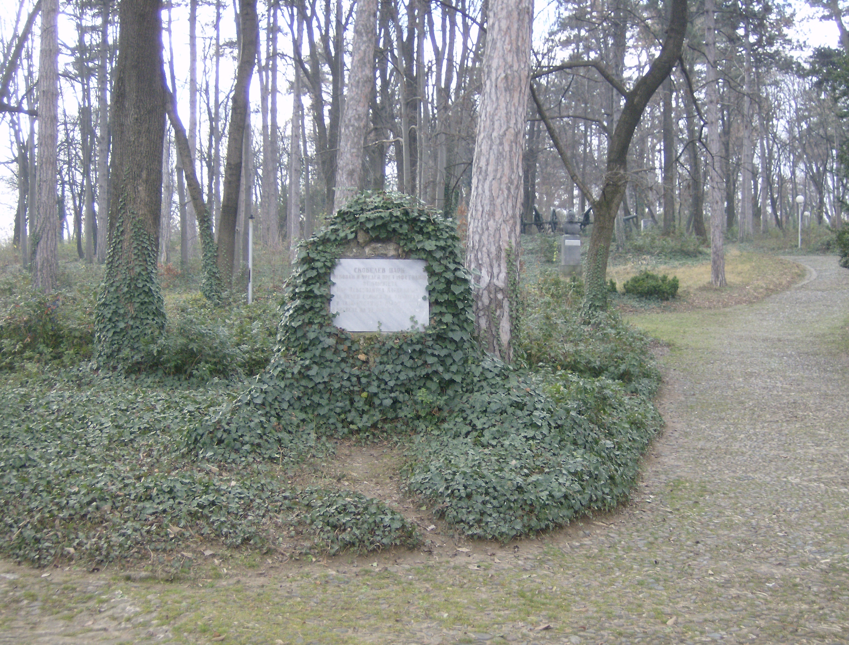 Park Scobelev, Pleven